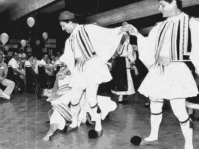 Group dancing Tsamiko, in traditional costumes. Athens, 1983